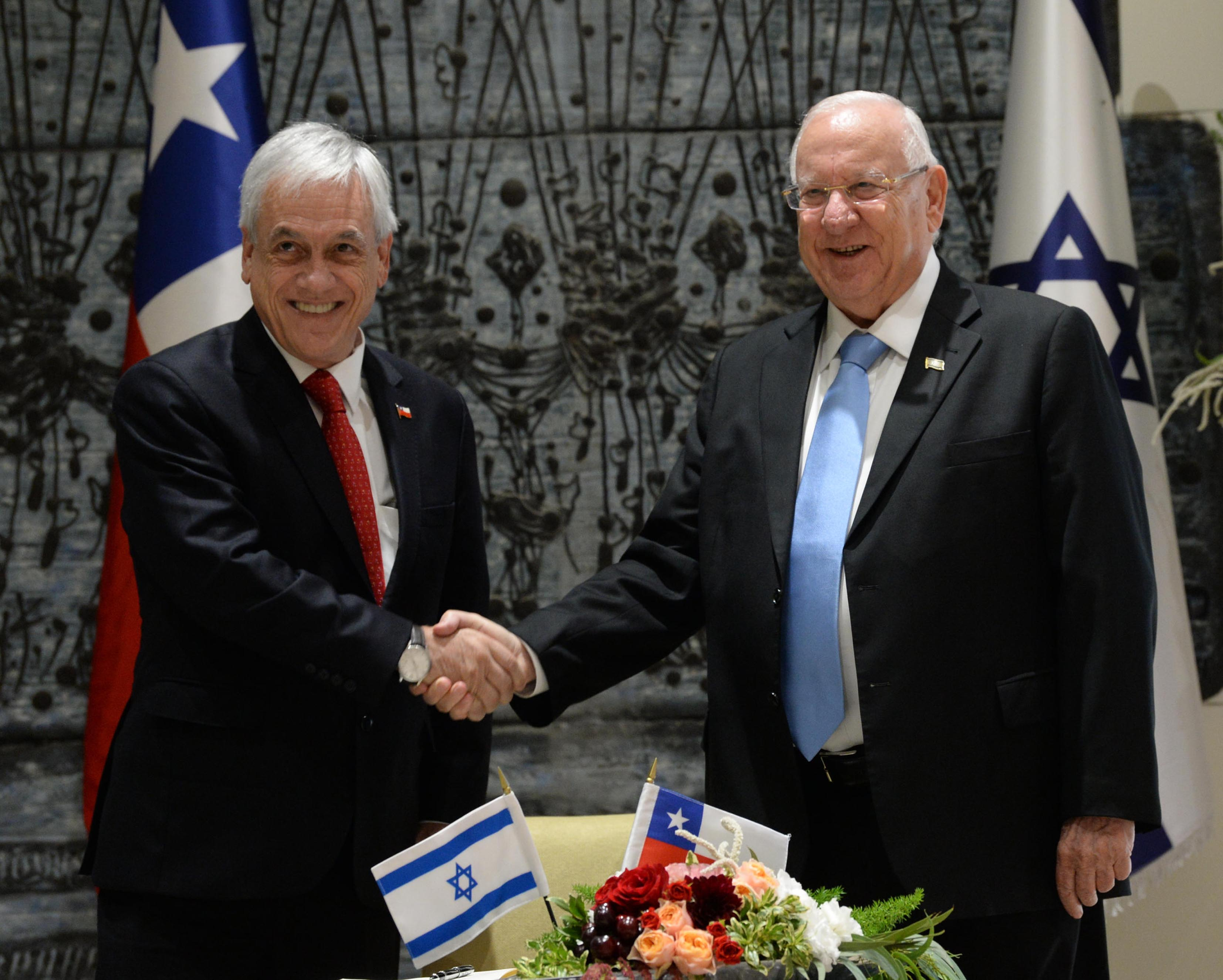 The President of Israel, Reuven Rivlin, hosting the President of Chile, Sebastián Piñera, who visited Israel. Wednesday, 26 June 2019. Photo credit: Mark Neiman / GPO.